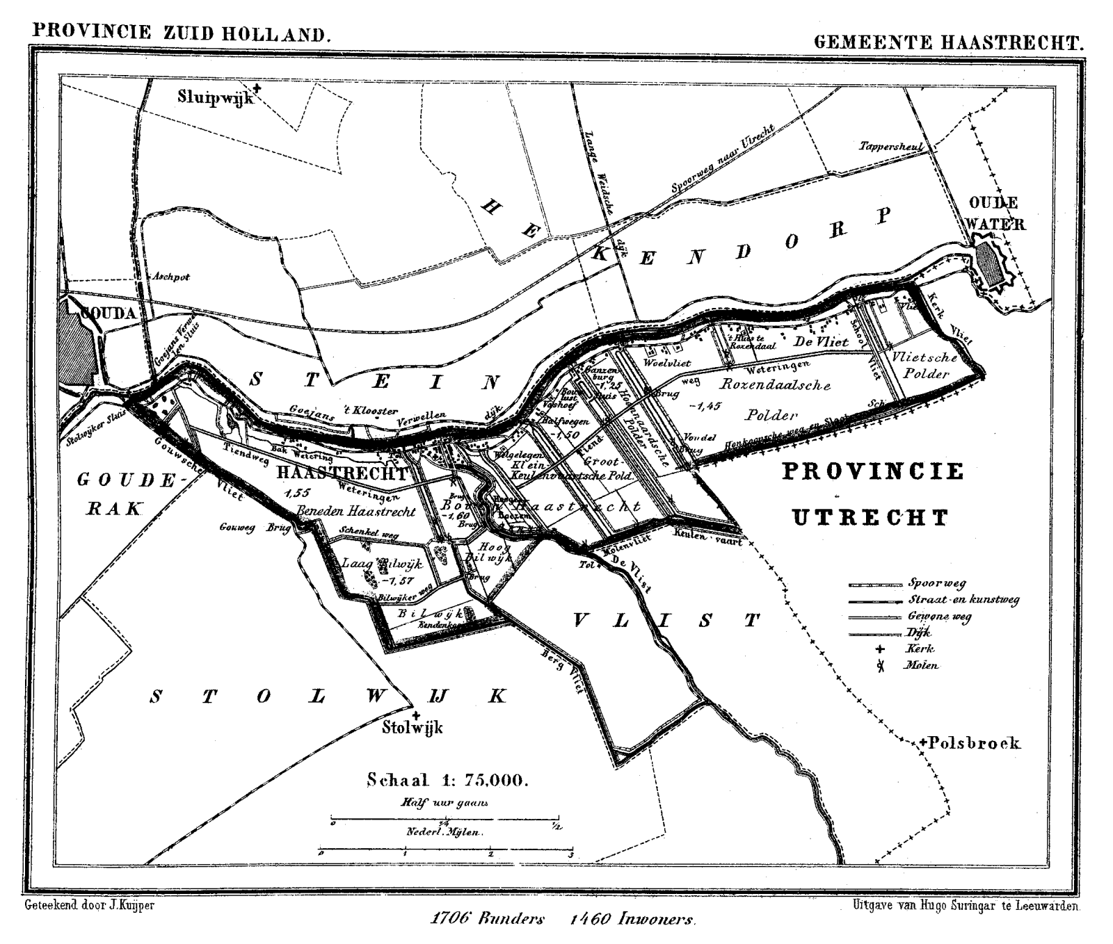 Historic map of Haastrecht (now part of municipality Vlist), South Holland, the Netherlands